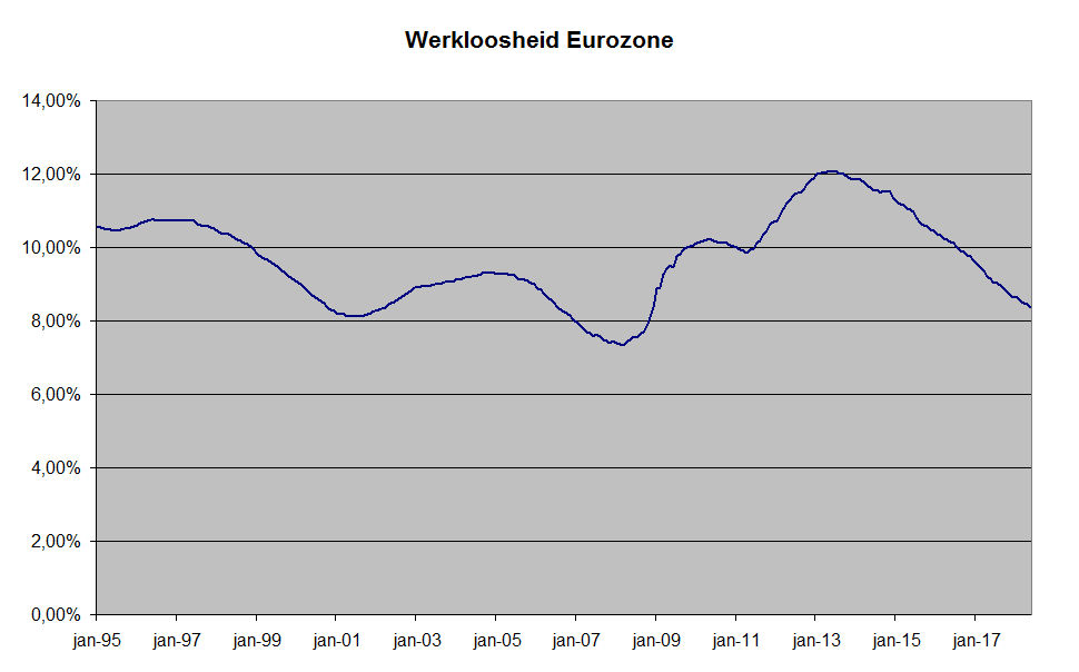 Graph of unemployment rate in the Eurozone. Source: ECB website, query STS.M.I6.S.UNEH.RTT000.4.000.